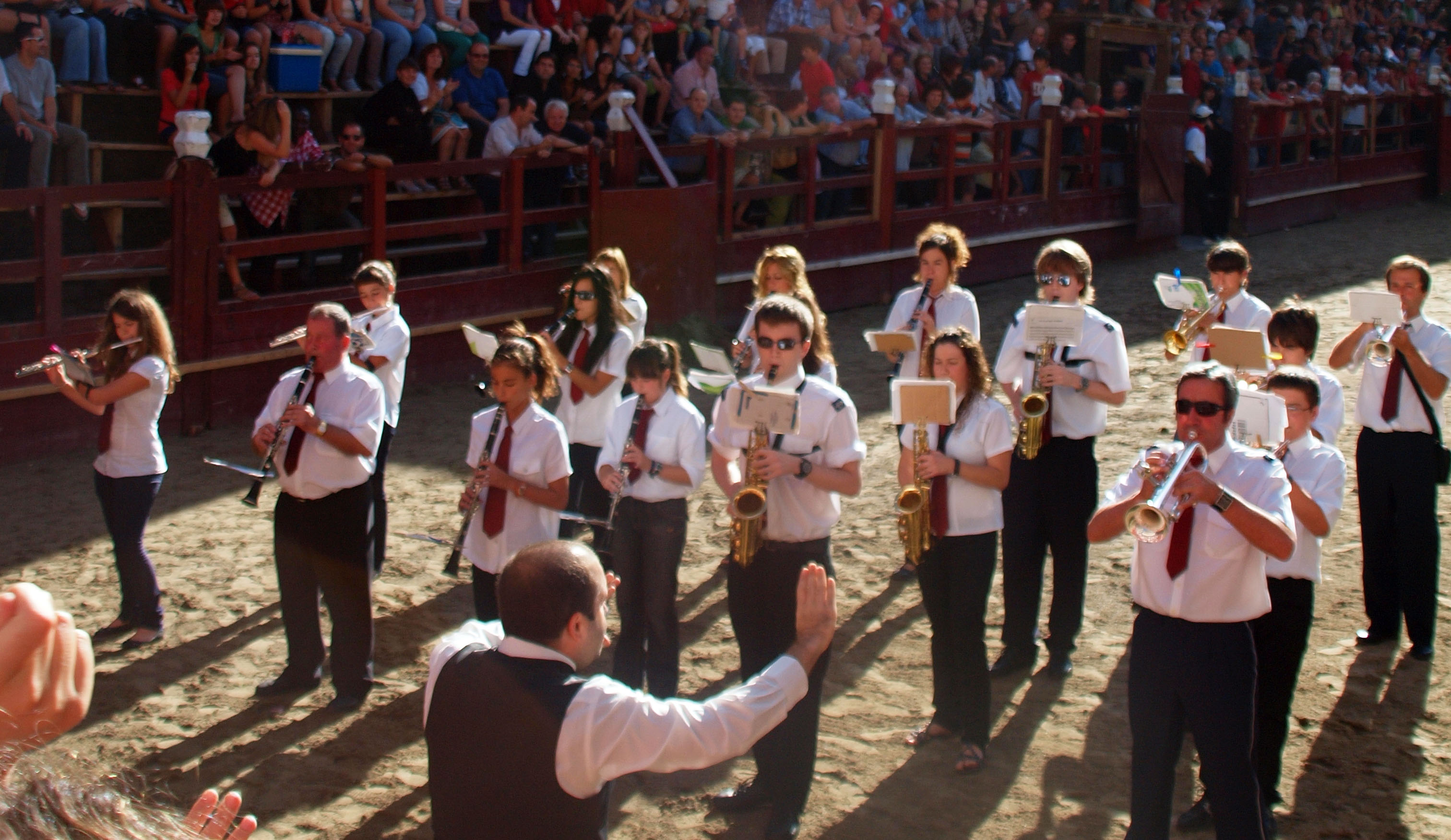 El pasodoble Amparito Roca interpretado por la Banda de Zestoa en las fiestas de 2010